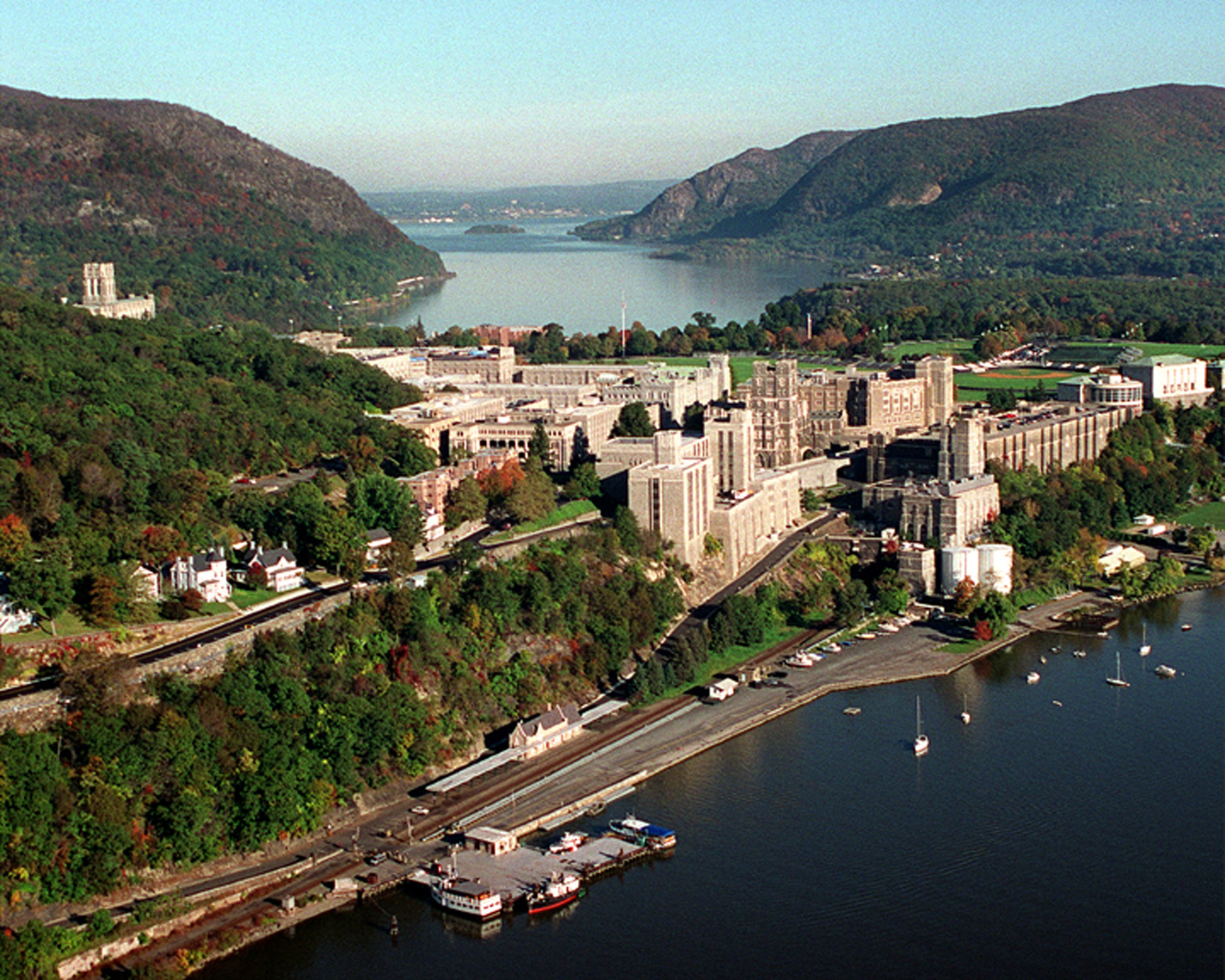 View of USMA looking north up the Hudson River